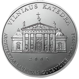 50 Litas coin to commemorate Vilnius Cathedral (from the series "Historical and Architectural Monuments of Lithuania") Silver Ag 925 Quality proof Diameter 38.61 mm Weight 28.28 g The words on the edge of the coin: HISTORICAL AND ARCHITECTURAL MONUMENTS Designed by Vladas Poliksa and Rytas Jonas Belevicius Mintage 1,500 pcs Issued 2003 The coin was minted at the state enterprise Lithuanian Mint.